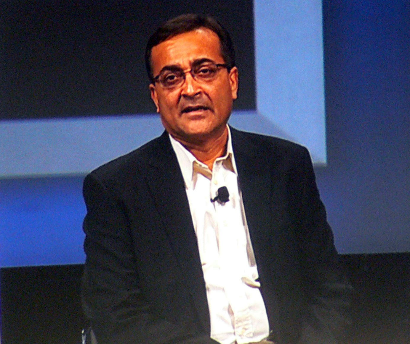 Ajay Bhatt at Intel ISEF